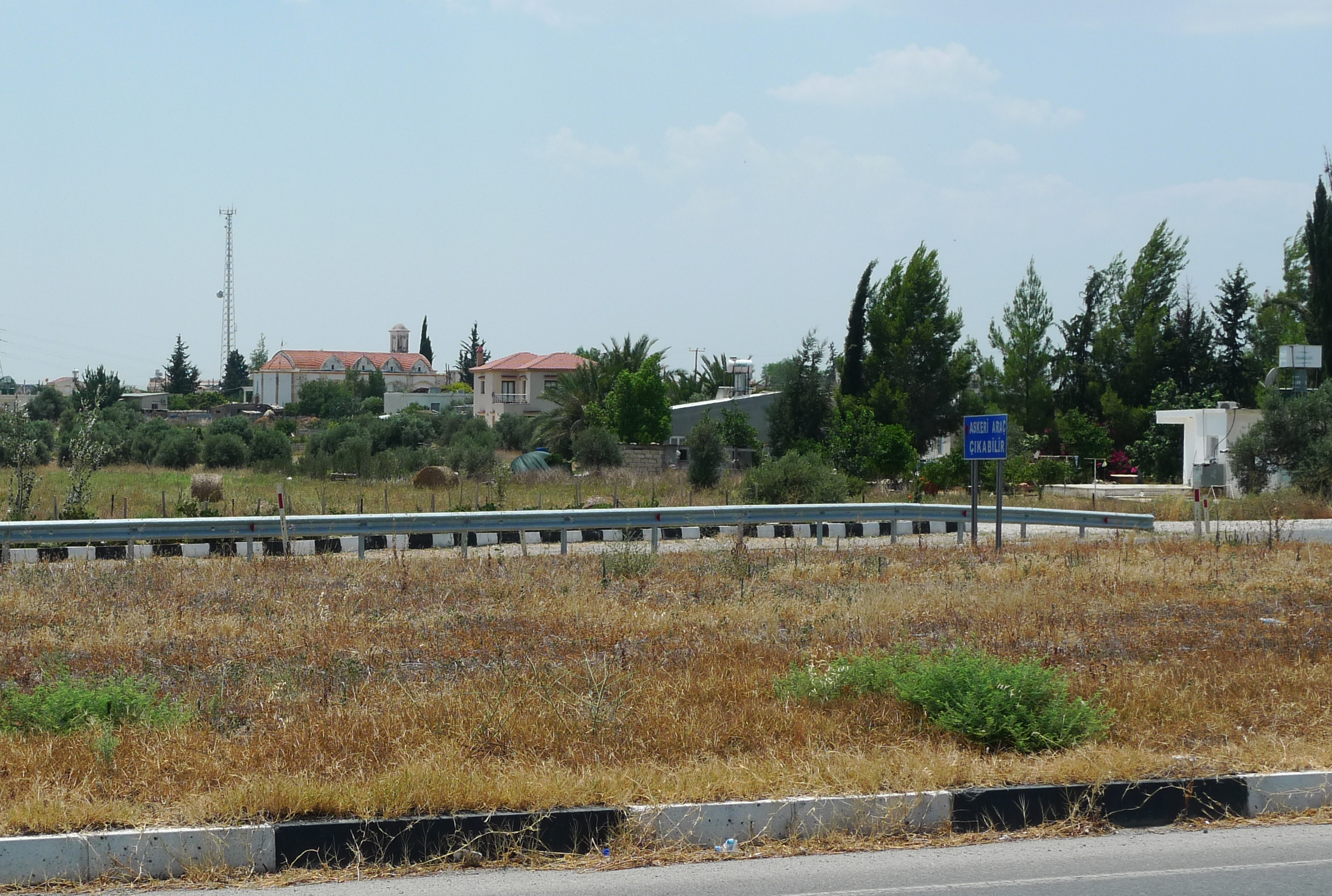 A view of Angastina, a village in central Cyprus from the Nicosia to Famagusta highway, 2012.